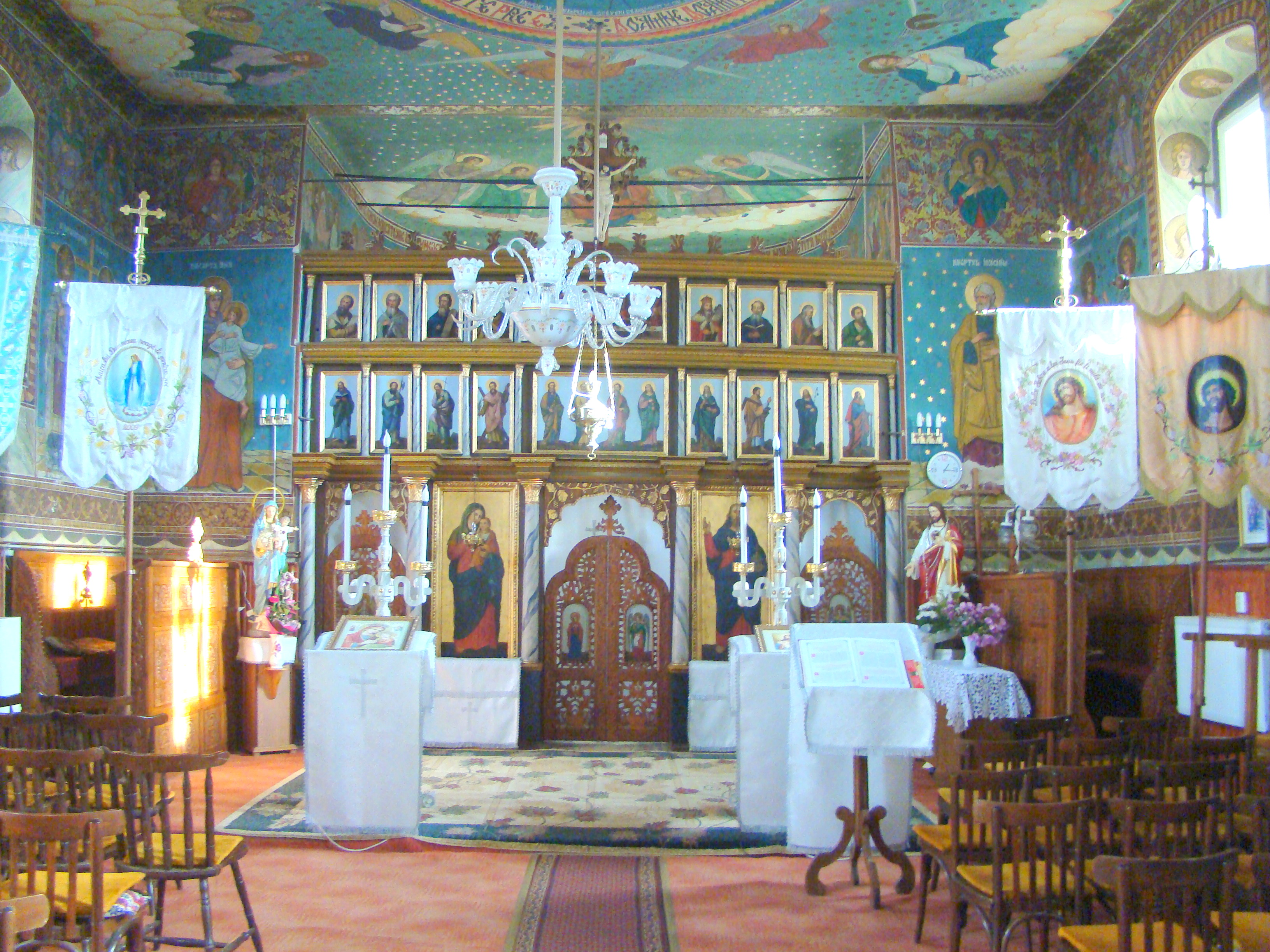 Greek Catholic church in Sântandrei, Bihor county, Romania